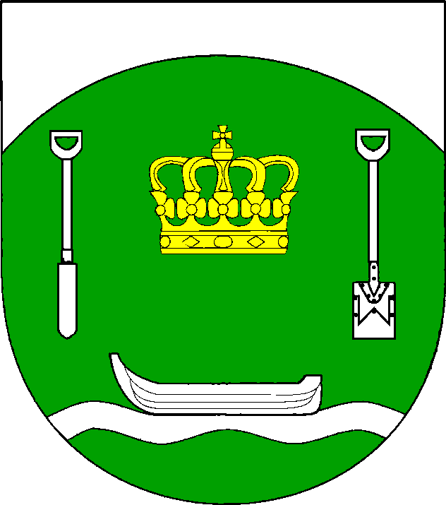 Coat of arms of the municipality Königshügel in Schleswig-Holstein, Germany.